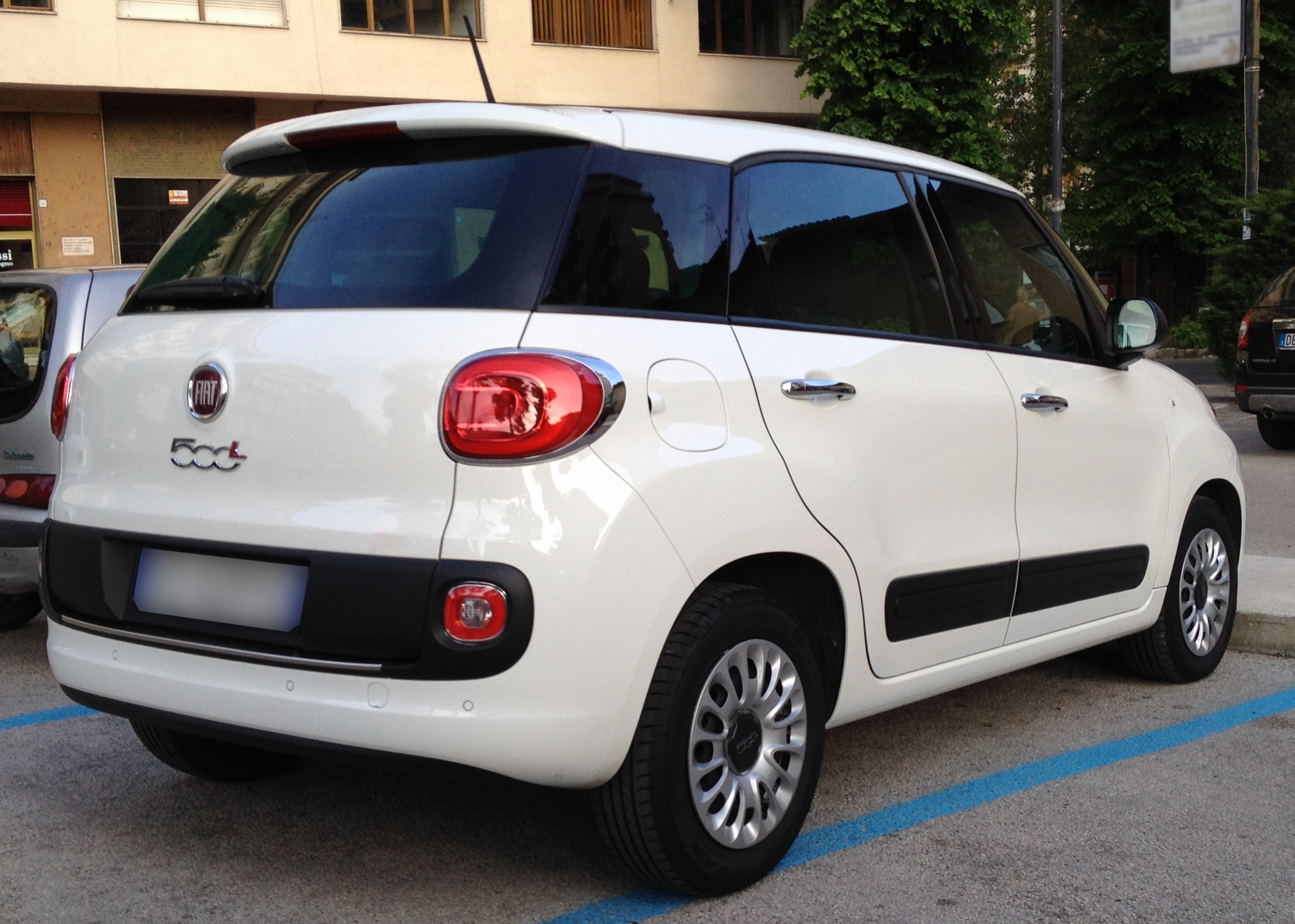 2014 Fiat 500L 1.3 Multijet Pop rear